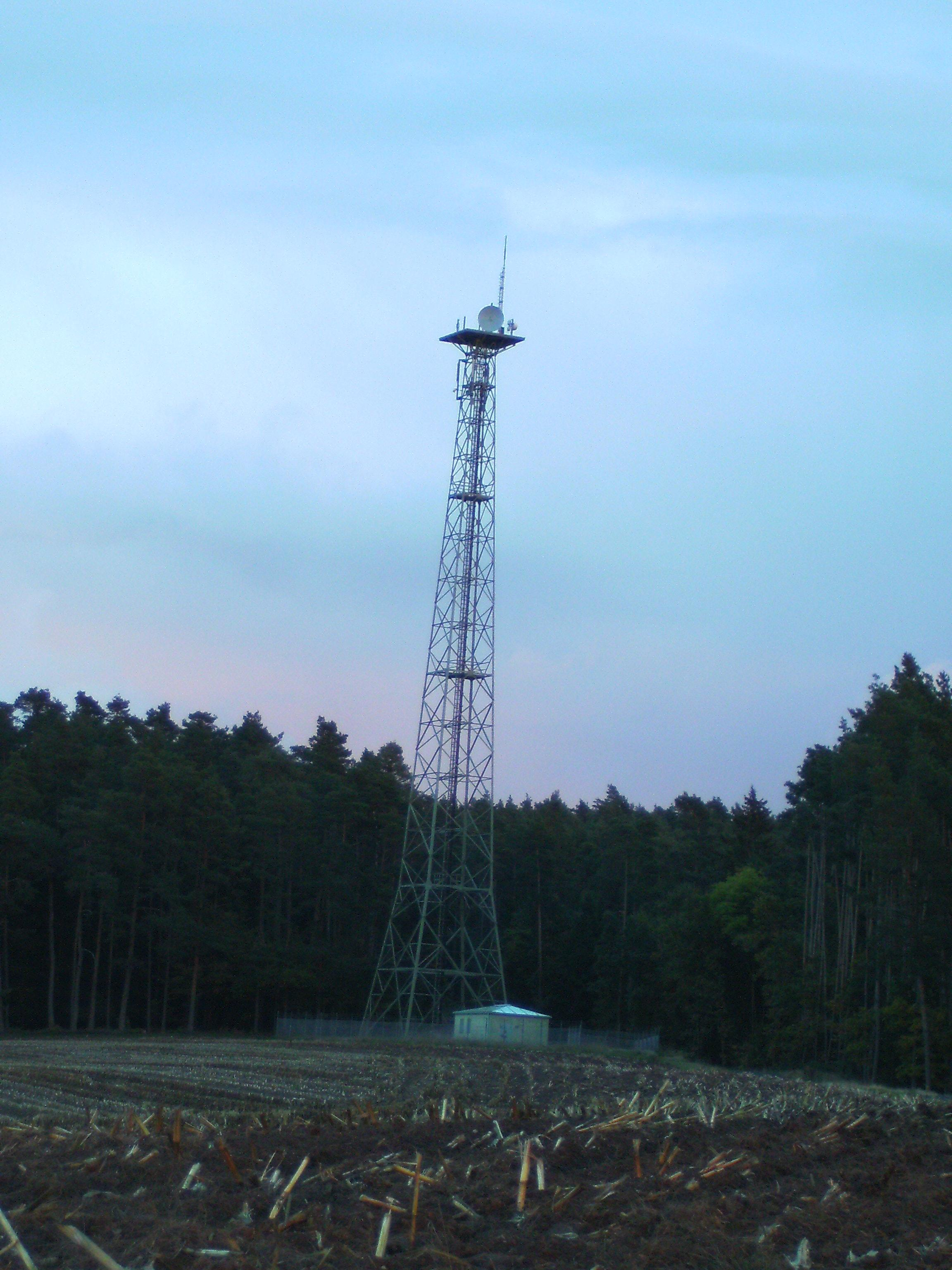 Etzenricht directional radio tower, Bavaria, Germany